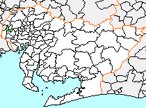 Position of former Saori town (佐織町), Aichi, Japan